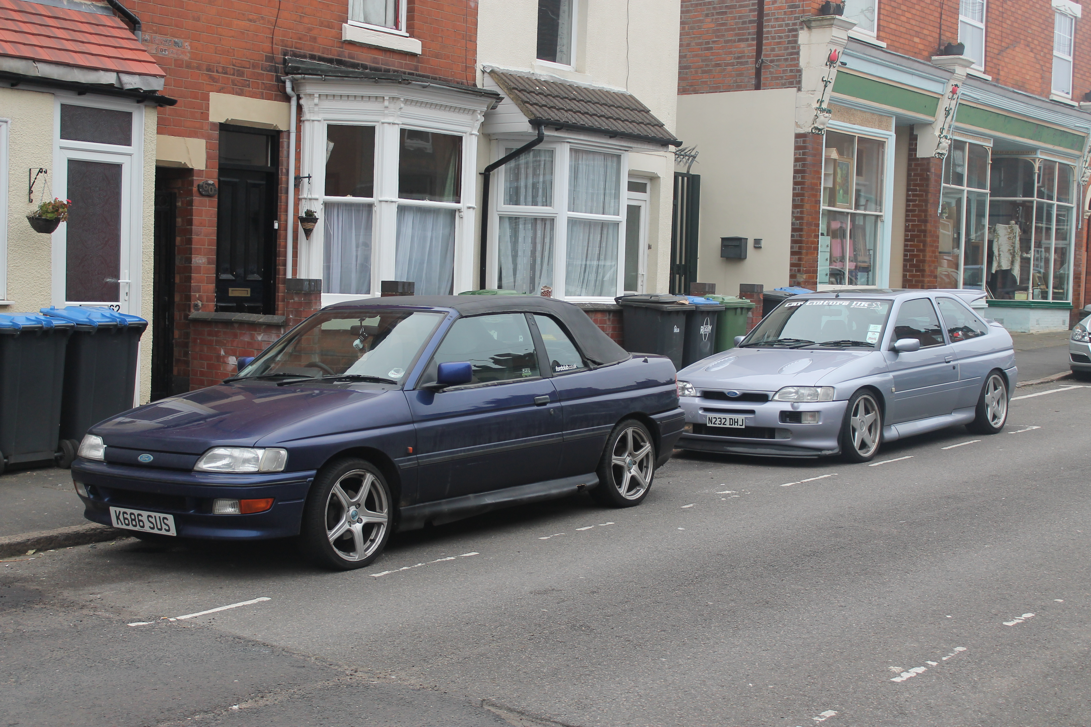 Nice to see these together like this, the car in front is a 1993 Ford Escort XR3i convertible, imported here in 2003, presumably from Ireland. Behind is a 1995 Escort RS Cosworth. The front car comes up as being one of only 3 licensed 1992 XR3i Convs. The vehicle details for K686 SUS are: Date of Liability 01 07 2014 Date of First Registration 01 12 2003 Year of Manufacture 1992 Cylinder Capacity (cc) 1796cc CO₂ Emissions Not Available Fuel Type PETROL Export Marker N Vehicle Status Licence Not Due Vehicle Colour BLUE Vehicle Type Approval Not Available The vehicle details for N232 DHJ are: Date of Liability 01 08 2014 Date of First Registration 29 11 1995 Year of Manufacture 1995 Cylinder Capacity (cc) 1994cc CO₂ Emissions Not Available Fuel Type PETROL Export Marker N Vehicle Status Licence Not Due Vehicle Colour BLUE Vehicle Type Approval Not Available